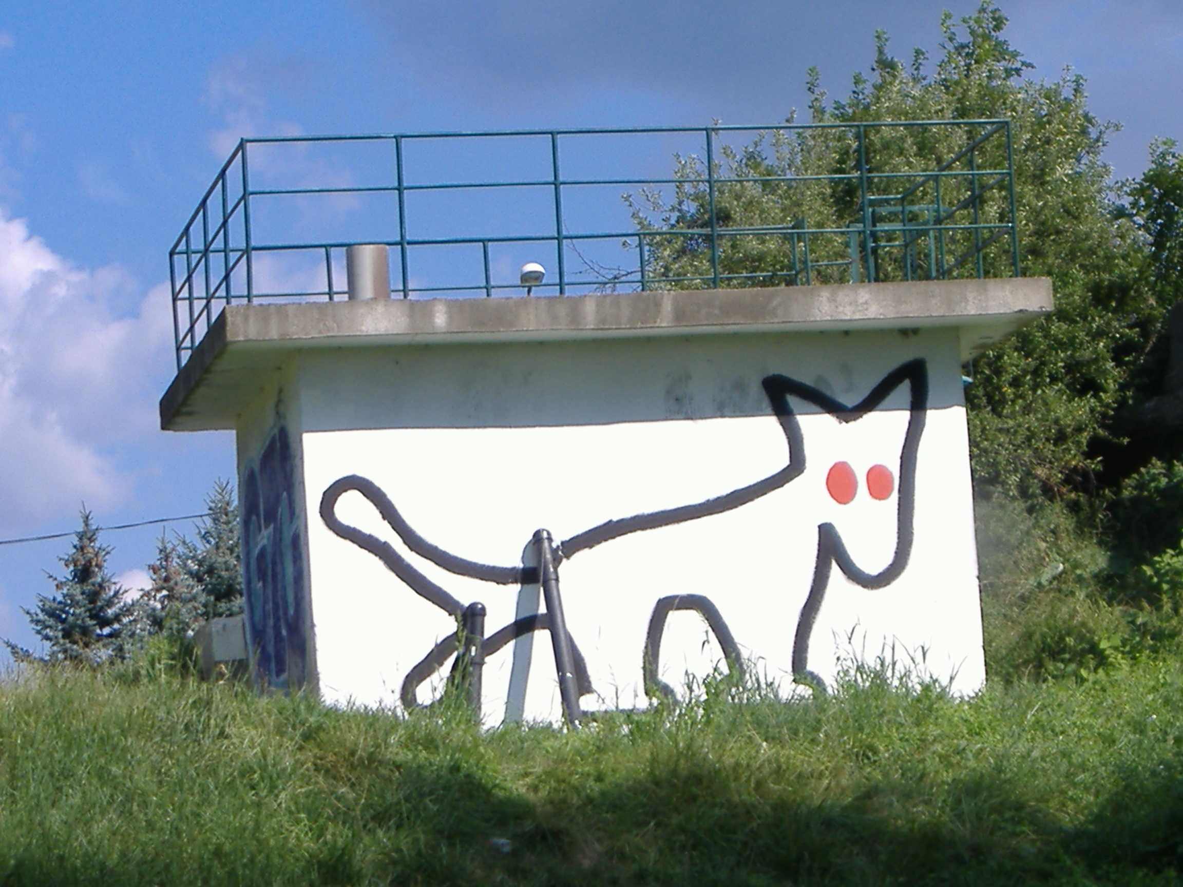 Street art of the Hungarian political organization Magyar Kétfarkú Kutya Párt ("Hungarian Two-tailed Dog Party")